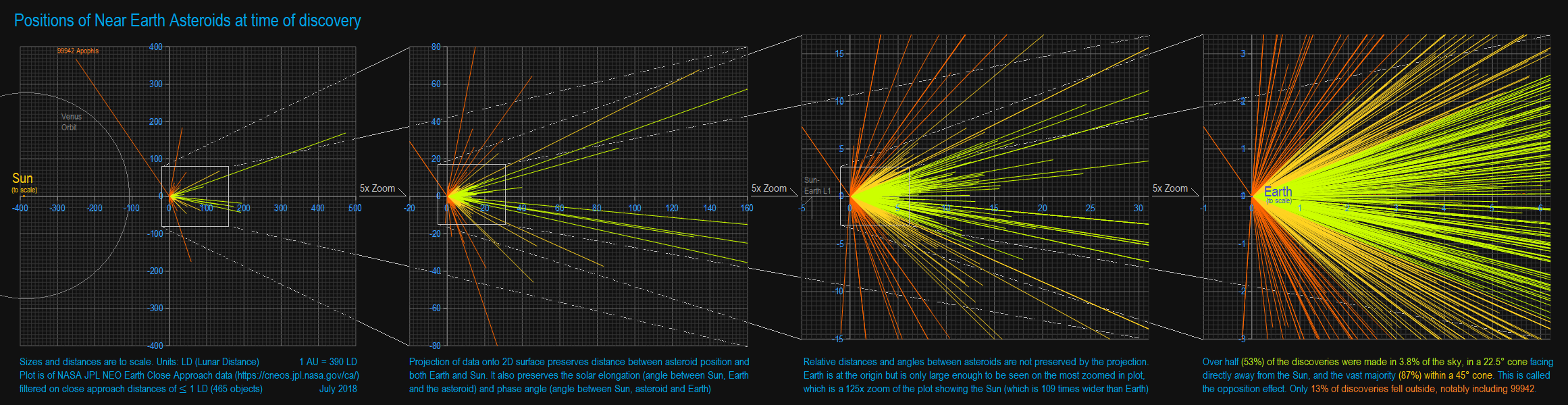 This diagram shows impact of the opposition effect on the discovery of Near-Earth objects. Over half (53%) of the discoveries were made in 3.8% of the sky, in a 22.5° cone facing directly away from the Sun, and the vast majority (87%) were made in 15% of the sky, in a 45° cone facing away from the Sun. Only 13% of the discoveries fell outside of these regions. Sizes and distances are to scale. Units: LD. The cone angle is the angle between the cone surface and cone axis. Projection of data onto a 2D surface preserves distances between asteroid position and both Sun and Earth. It also preserves the solar elongation (angle between Sun, Earth and asteroid) and phase (angle between Sun, asteroid and Earth). Relative distances and angles between asteroids are not preserved by the projection. Discoveries inside the 22.5° cone indicated in lime green. Discoveries inside the 45° cone indicated in yellow. Discoveries outside the 45° cone indicated in orange, notably including 99942 Apophis, which is marked. This diagram is intended for the following articles: Opposition surge Asteroid impact prediction 99942 Apophis Near-Earth object